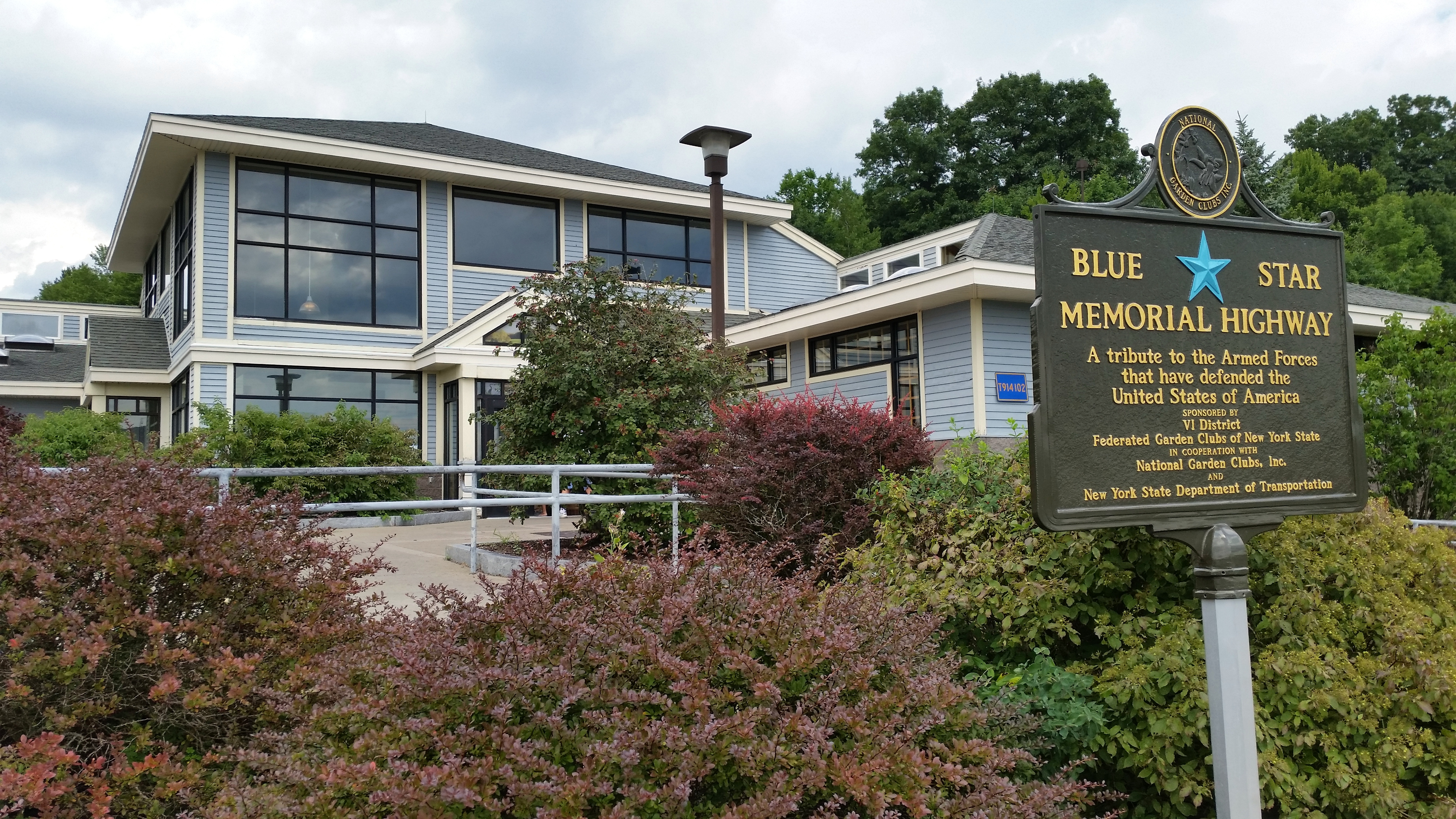 Taste NY @ Broome Gateway Information Center, I-81 North, Kirkwood, NY 13795